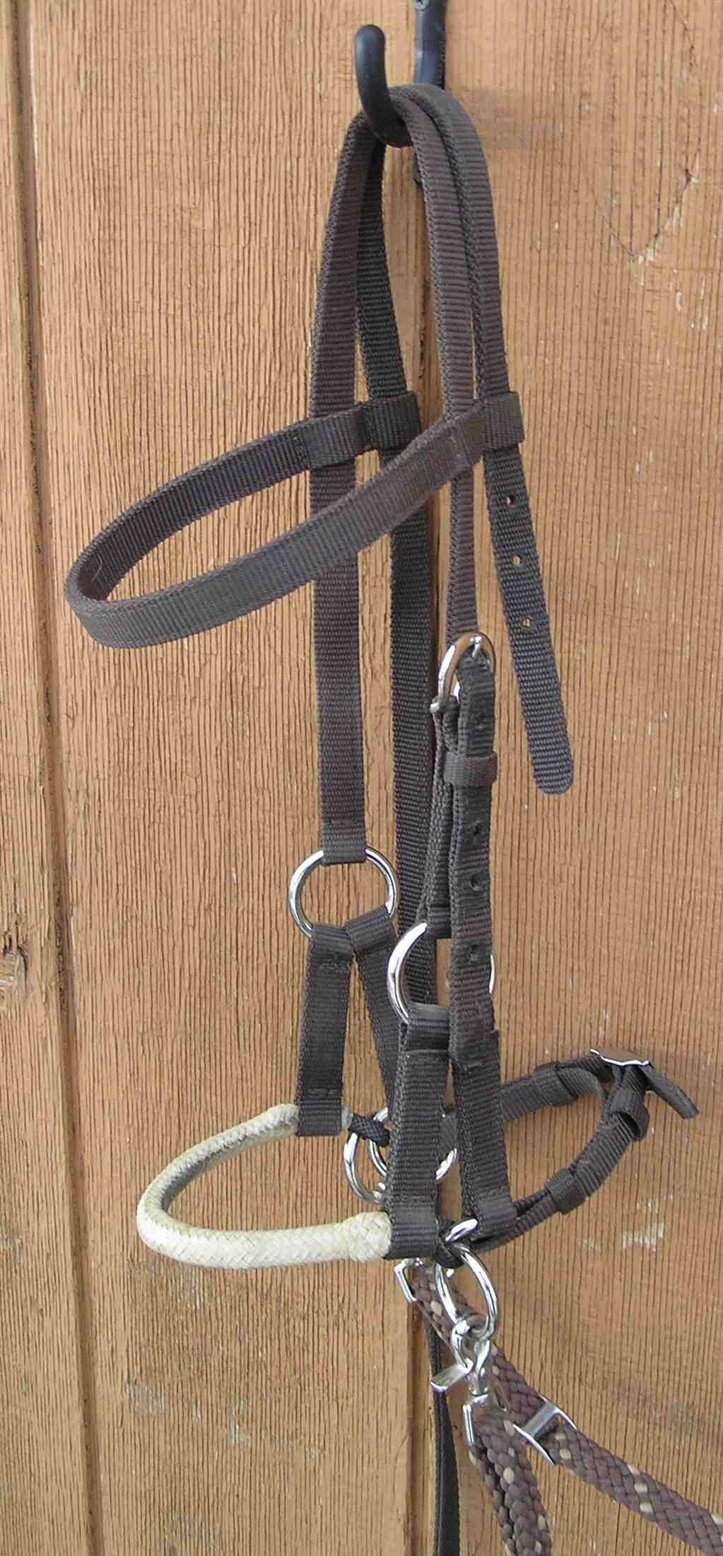 A sidepull, a type of hackamore for horses. Nylon web headstall, rawhide noseband